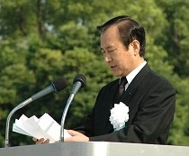 Tadatoshi Akiba, Mayor of Hiroshima City, read the Peace Declaration at Hiroshima Peace Memorial Park in Hiroshima City, Hiroshima Prefecture on August 6, 2005.